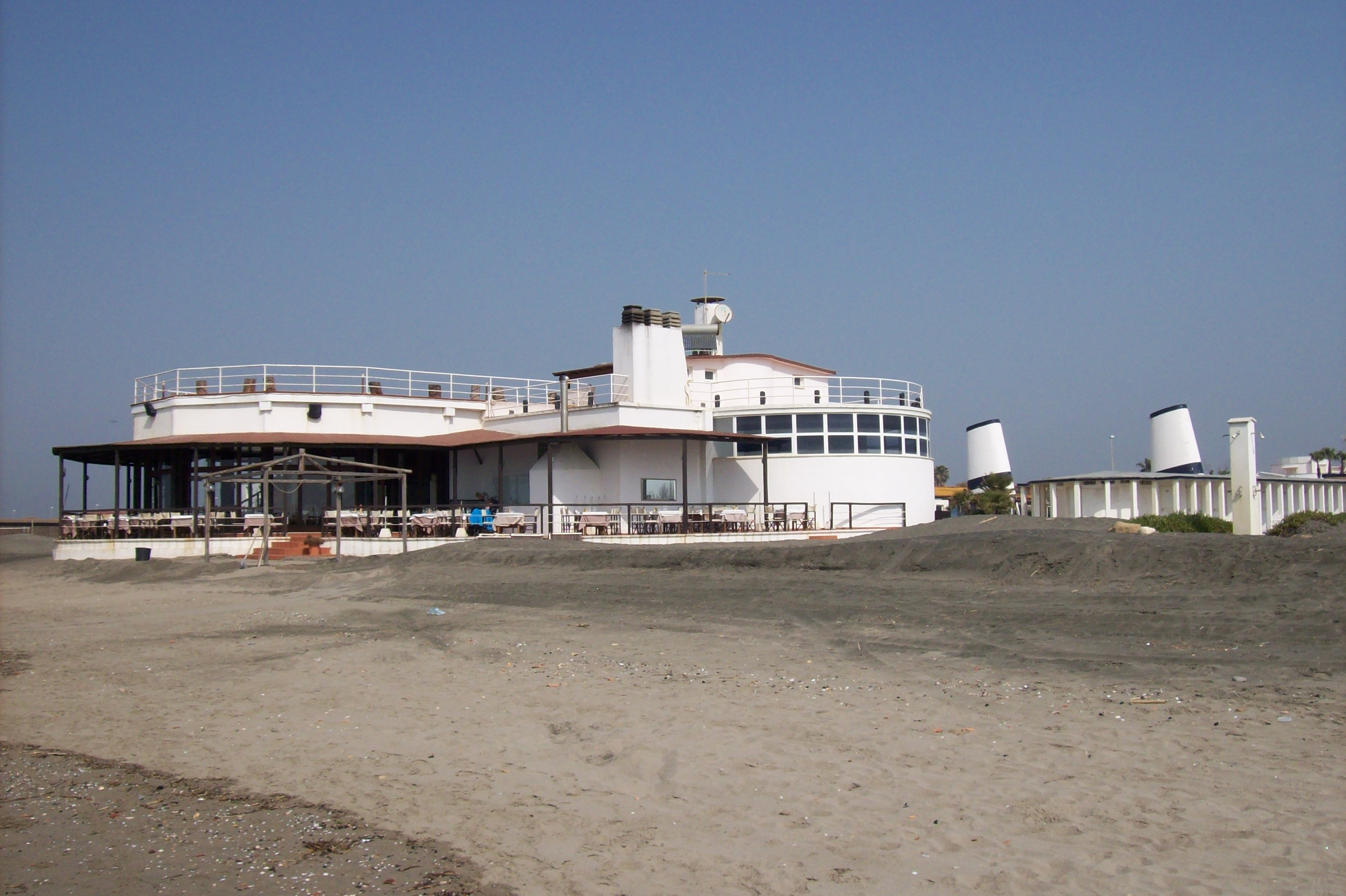 Beach resort La Nave in Fregene, province of Rome